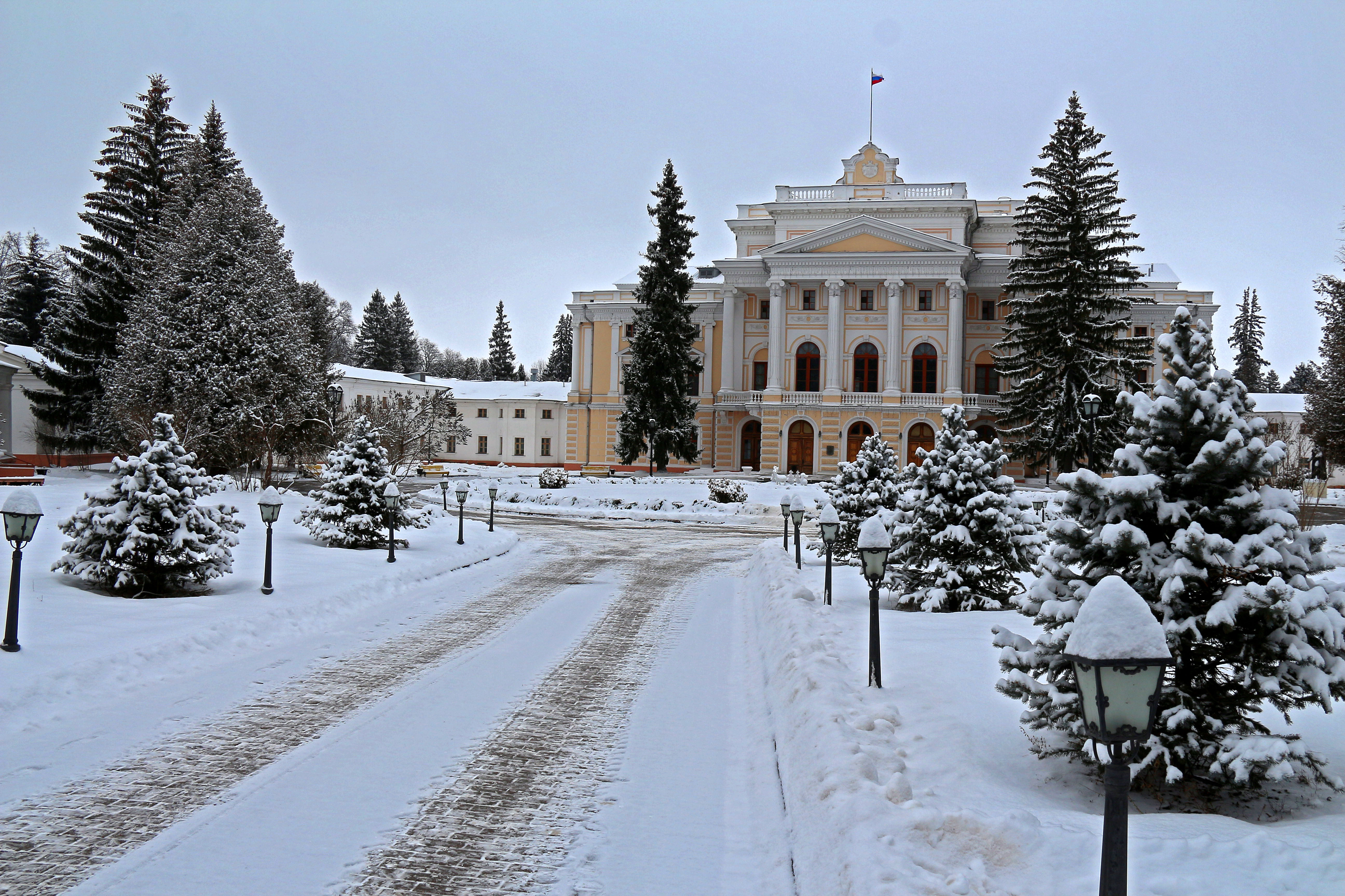 Marino (manor of Baryatinsky)